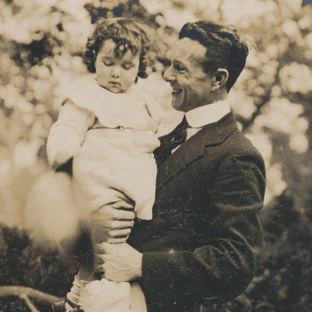 Aeneas Mackintosh with his daughter Pamela, circa 1912.